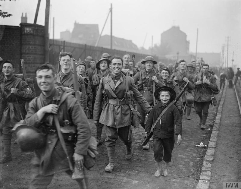 The Hundred Days Offensive, August-november 1918 Troops of the 8th Battalion, the King's (Liverpool Regiment, Liverpool Irish, 57th Division) entering Lille, 18 October 1918. Note a barefooted French boy with a rifle, clearly given to him by a smiling soldier on his right.